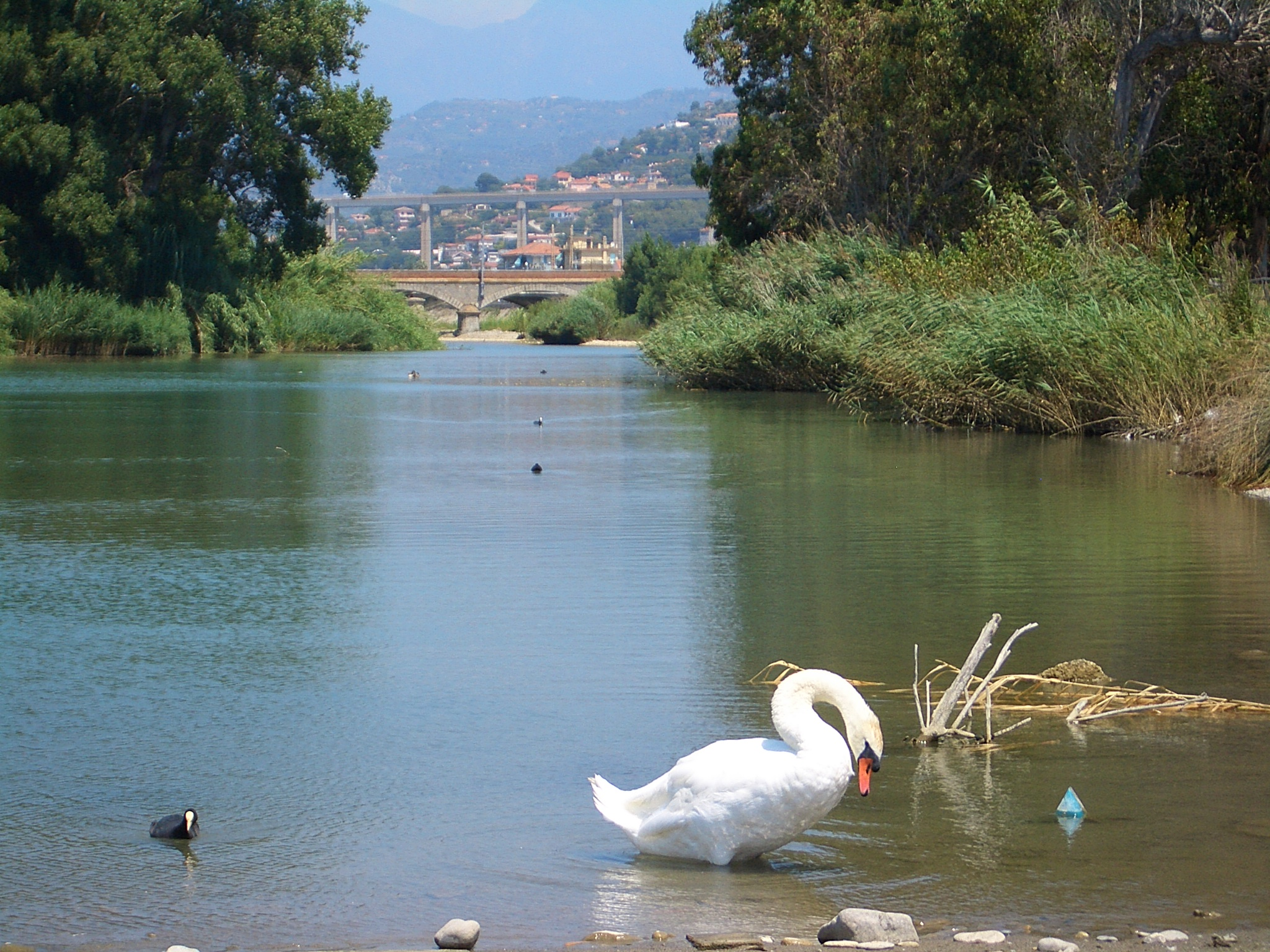 A little natural reserve at the mouth of the Nervia River near the Camporosso beach (just east of Ventimiglia, in the area popular with kitesurfers.)